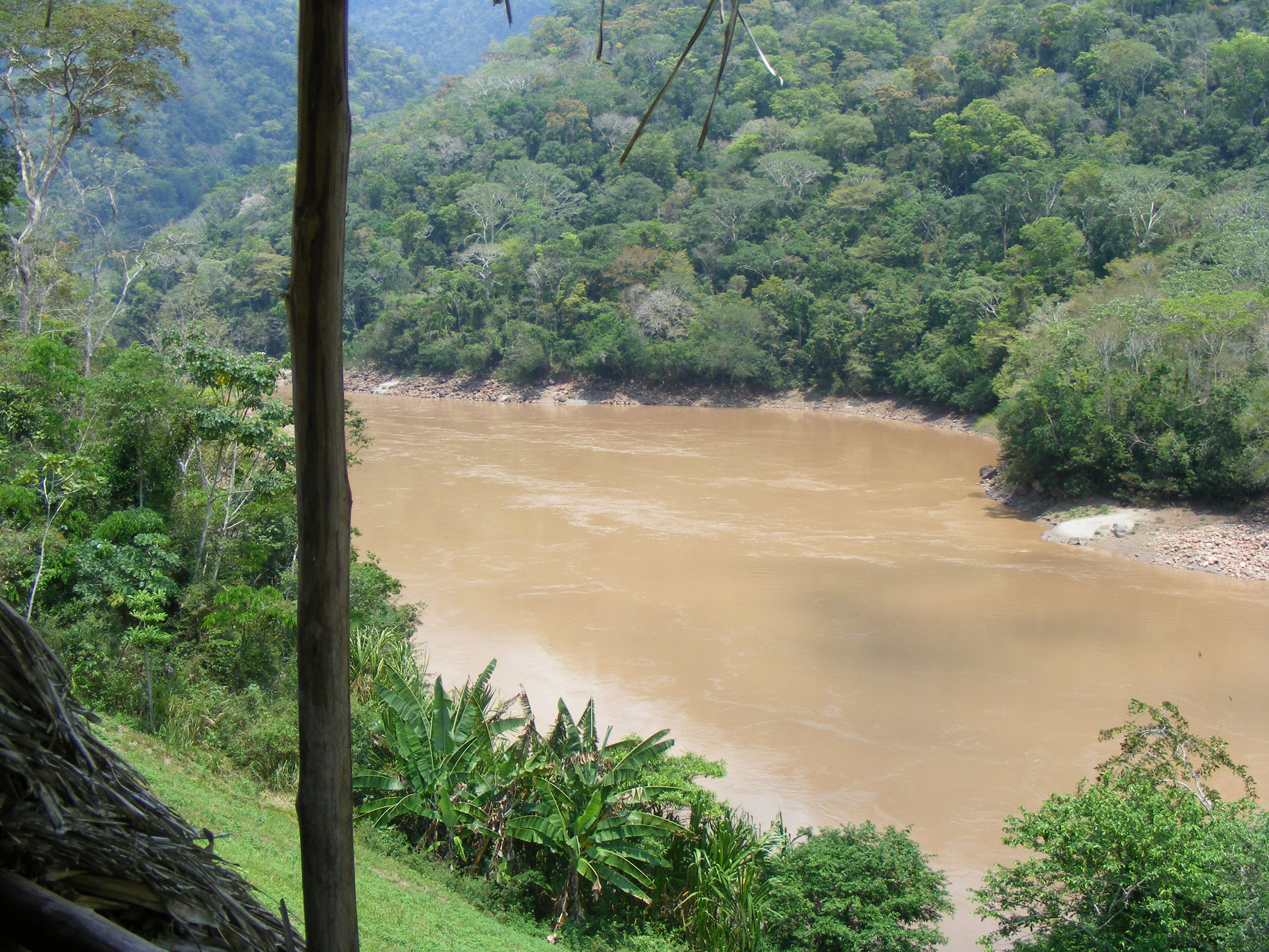 Huallaga basin